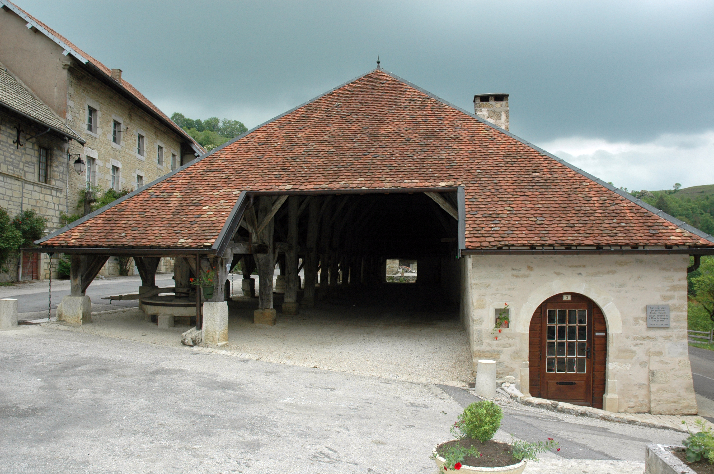 Les Halles de Belvoir / Lavoir de Belvoir